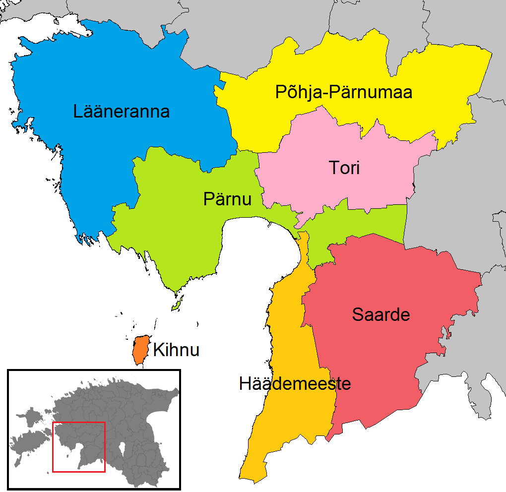 Map of the municipalities of Pärnu County after the Administrative Reform of Estonia in 2017.